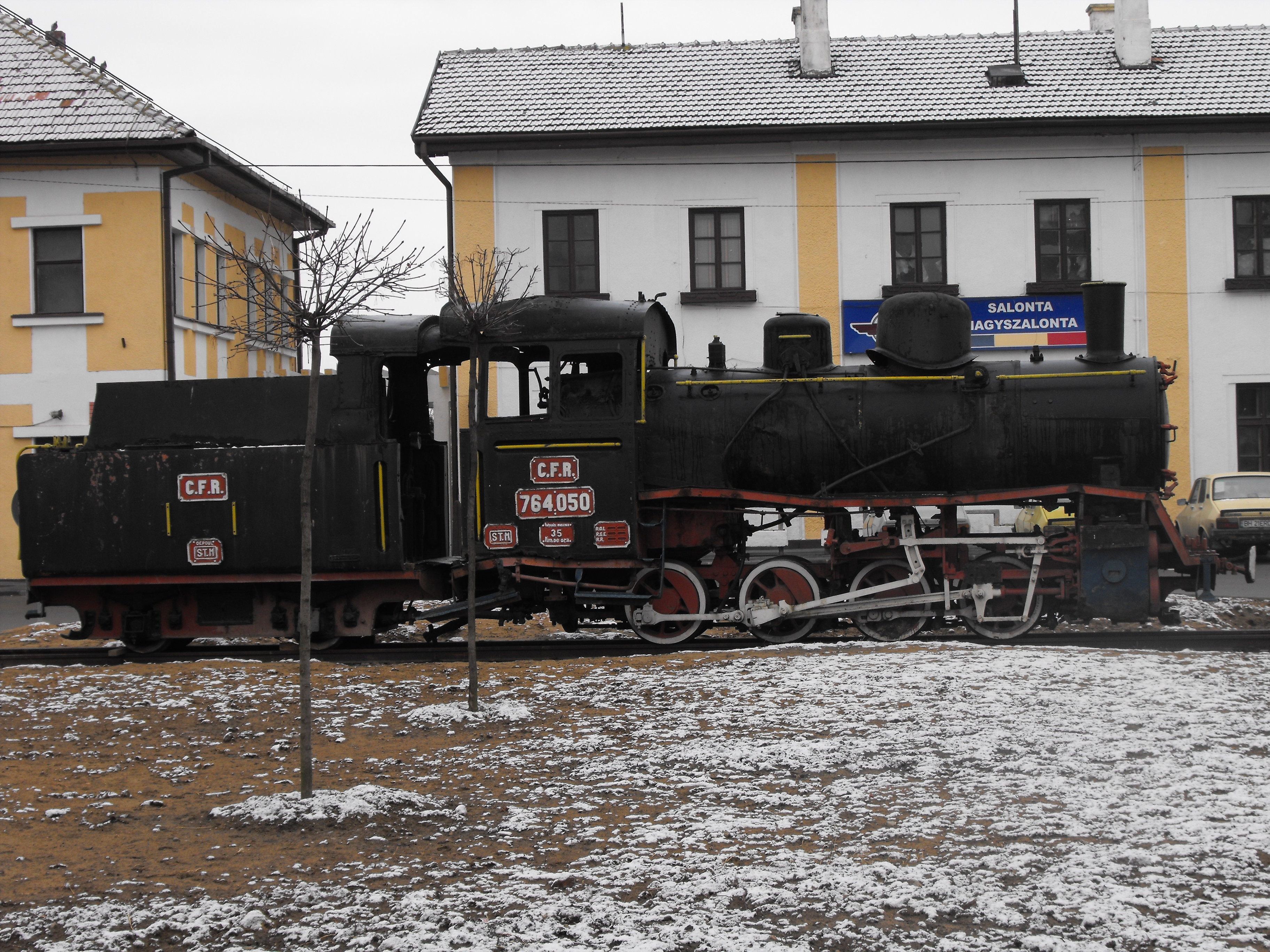 Nagyszalonta (Romania, county Bihar) railway station located in front of the narrow-gauge steam-engine (Polish product PX-48, built by Fablok, Duna type).